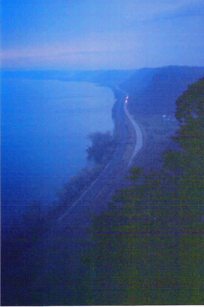 The Upper Mississippi River Valley upstream from Prairie du Chien, WI.